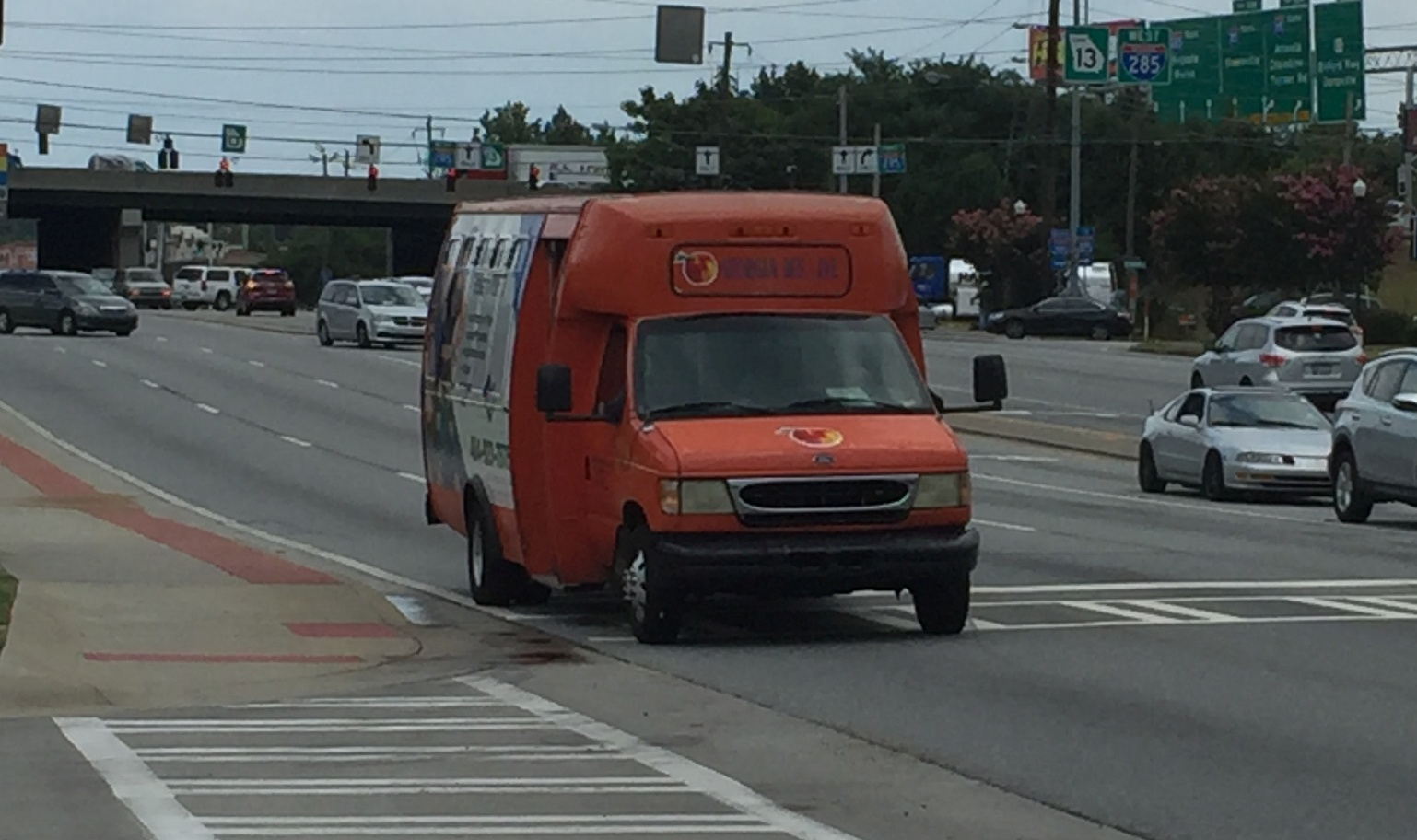 Royal/Georgia Bus Line bus on Buford Highway, July 2016